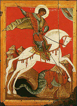 St. George and the dragon